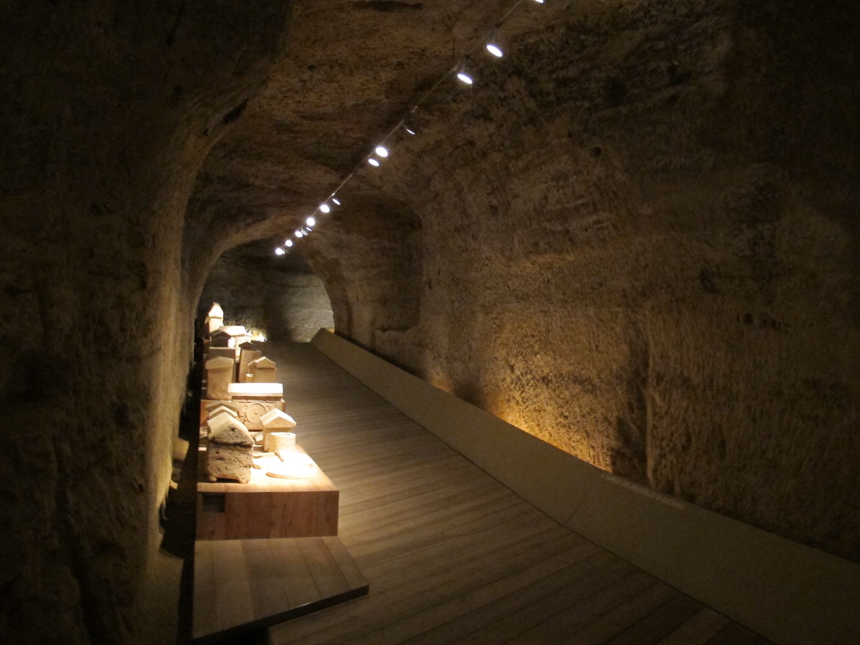 Museo Archeologico Nazionale (Siena)